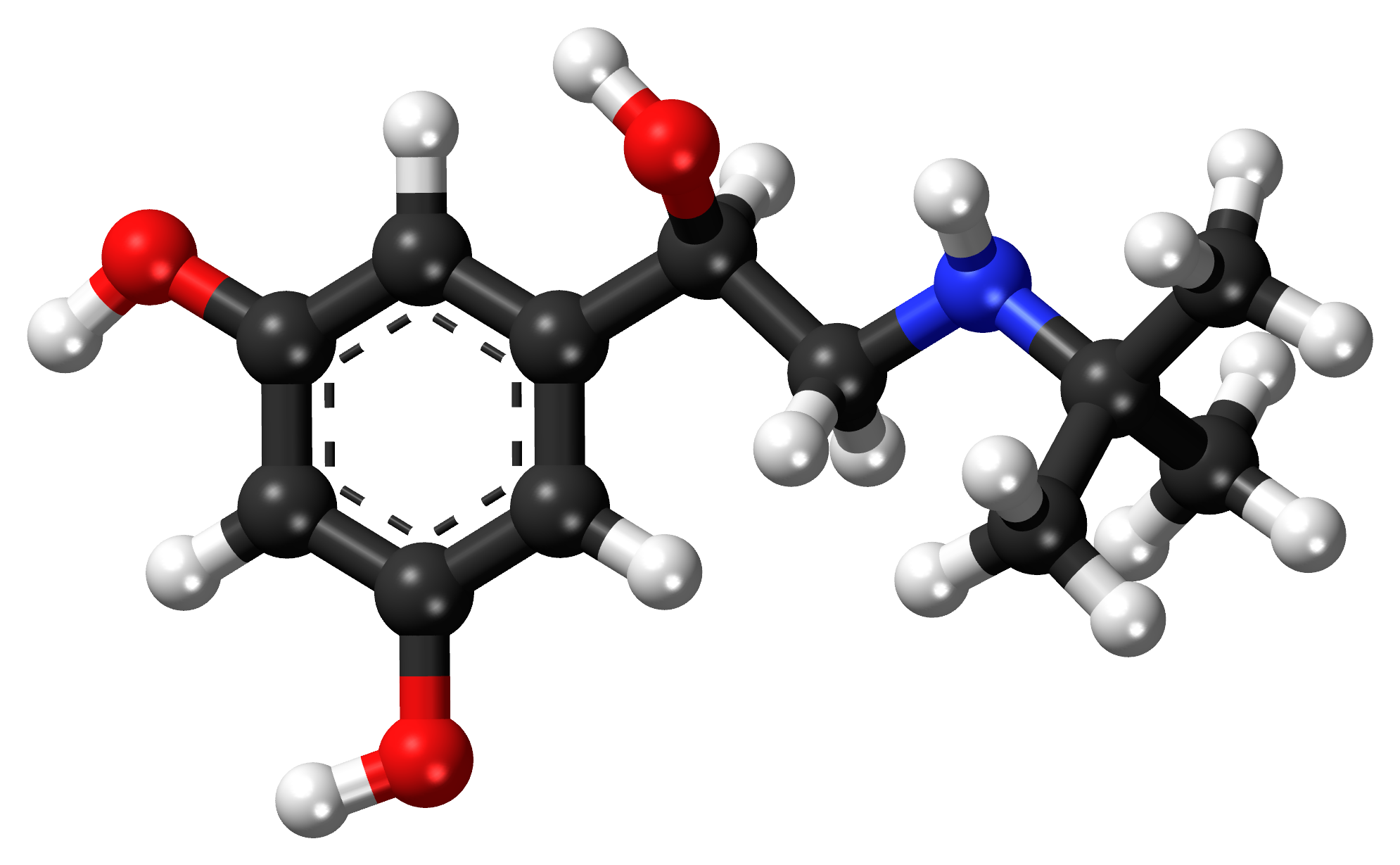 Ball-and-stick model of terbutaline — a short-acting β2 adrenoreceptor agonist used for the prevention and reversal of bronchospasm associated with asthma, bronchitis and emphysema, It is also used off-label as a tocolytic to prevent premature birth. Terbutaline is a racemic mixture, (R)-(−)-enantiomer is portrayed. Created using Accelrys DS Visualizer 4.1 and Adobe Photoshop CC 2015. Colors used: Carbon, C: black Hydrogen, H: white Nitrogen, N: blue Oxygen, O: red This chemical image was created with Discovery Studio Visualizer.